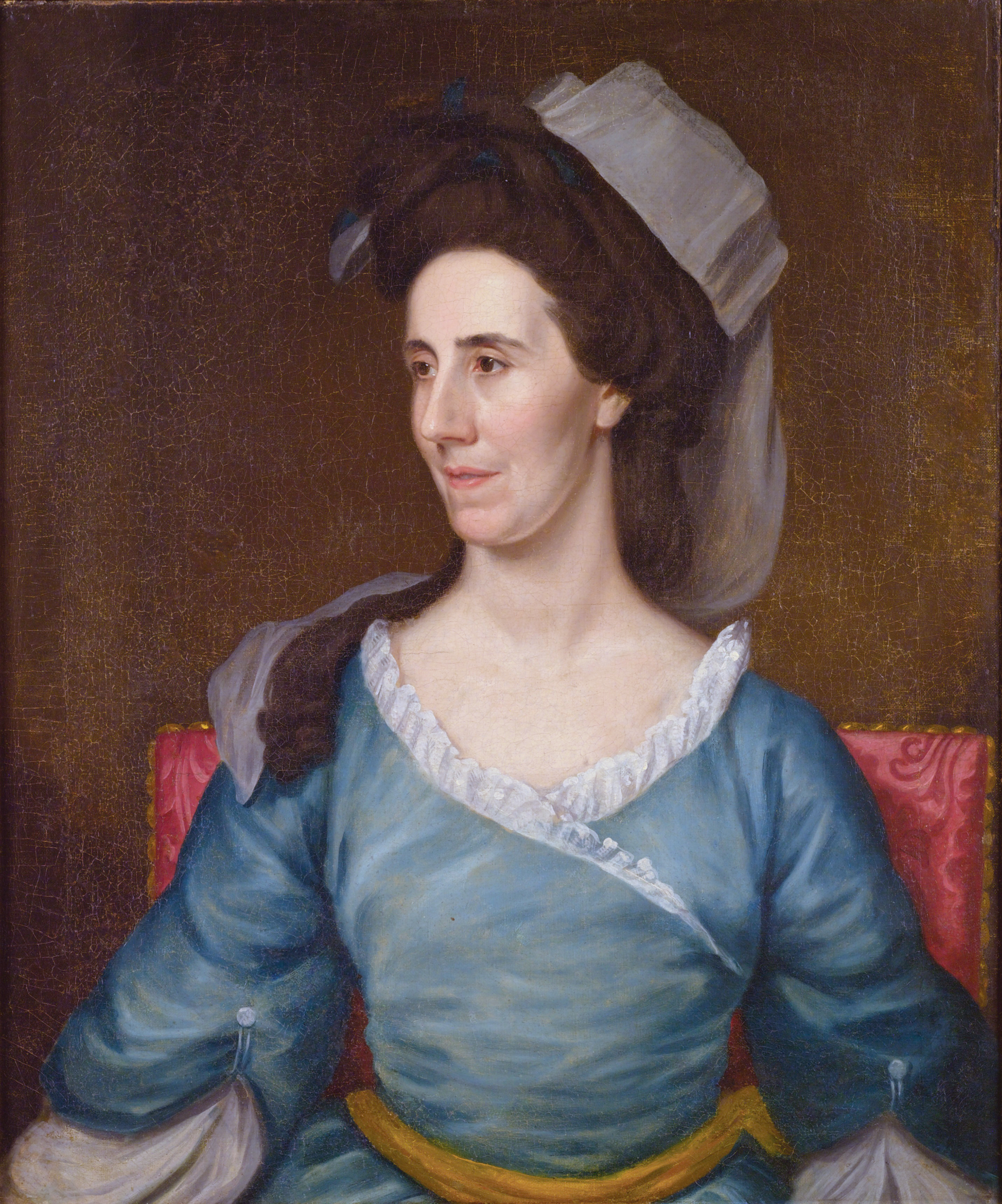 Mrs. Elias Boudinot (Princeton, New Jersey, July 21, 1736 - Burlington, New Jersey, October 28, 1808)